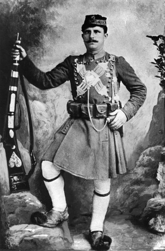 Greek andart captain Dimitrios Dalipis (Dimitar Dalipov)